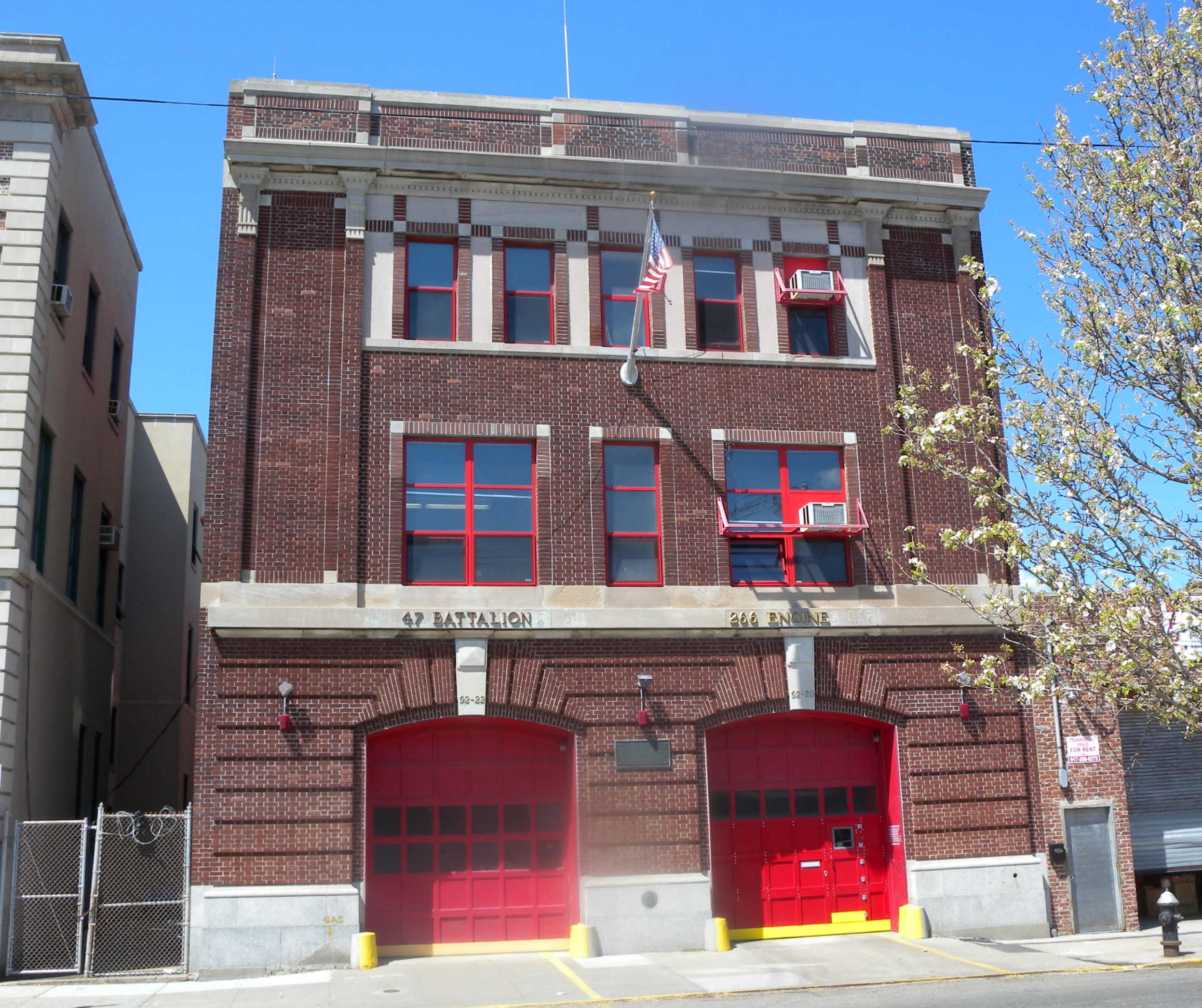 Looking north at Engine 296 house on a sunny midday.